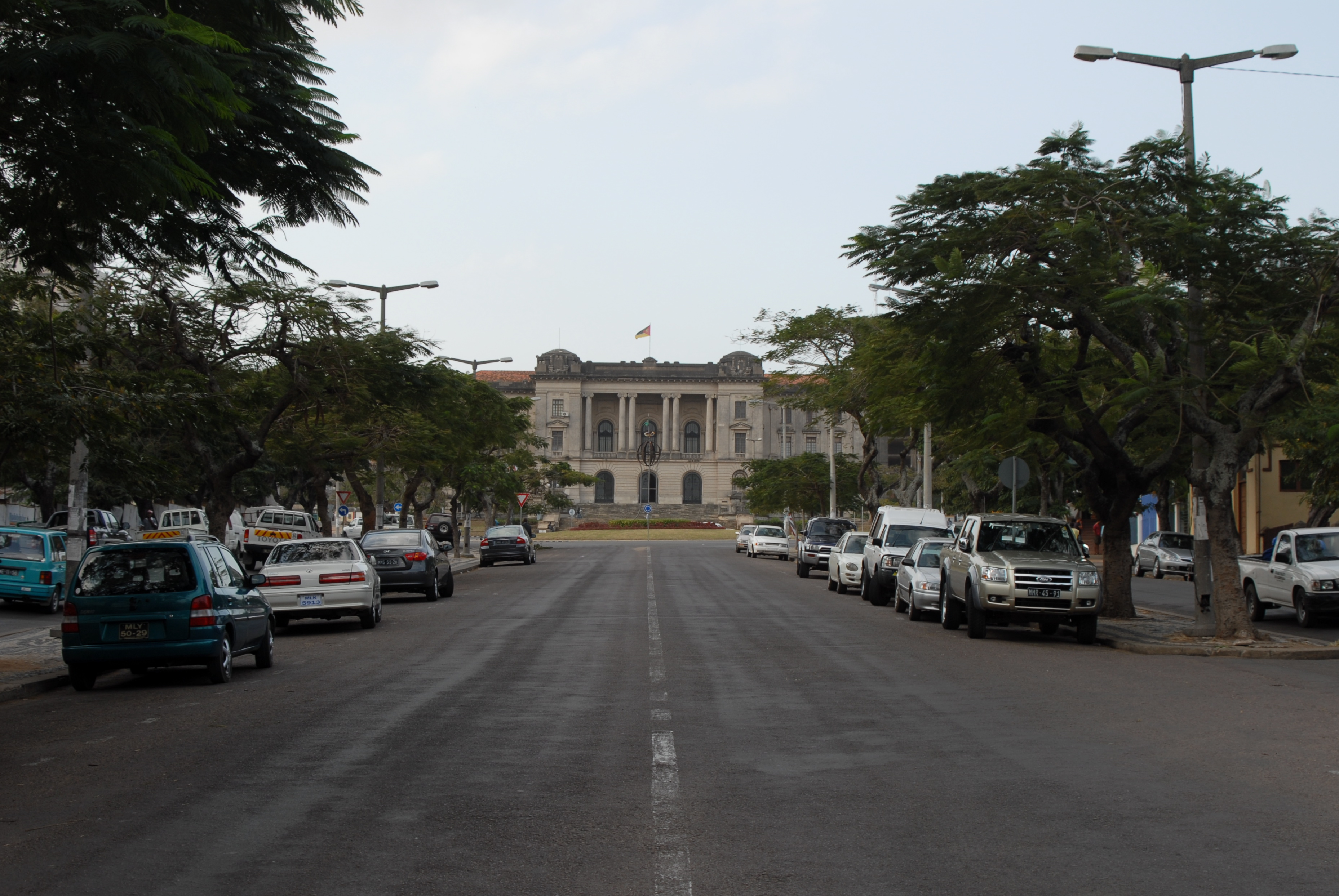 Avenida Samora Machel towards Maputo Town Hall